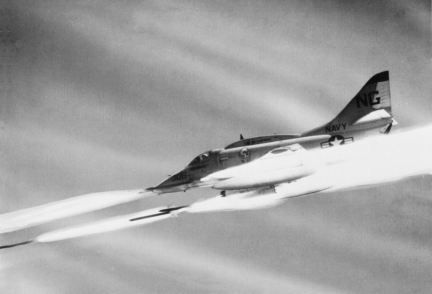 A U.S. Navy Douglas A-4F Skyhawk (BuNo 154976) from Attack Squadron VA-113 Stingers launches "Zuni" rockets in support of U.S. Marines at Khe Sanh, Vietnam, in 1968. VA-113 was assigned to Carrier Air Wing 9 (CVW-9) aboard the aircraft carrier USS Enterprise (CVAN-65) for a deployment to Vietnam from 3 January to 18 July 1968.